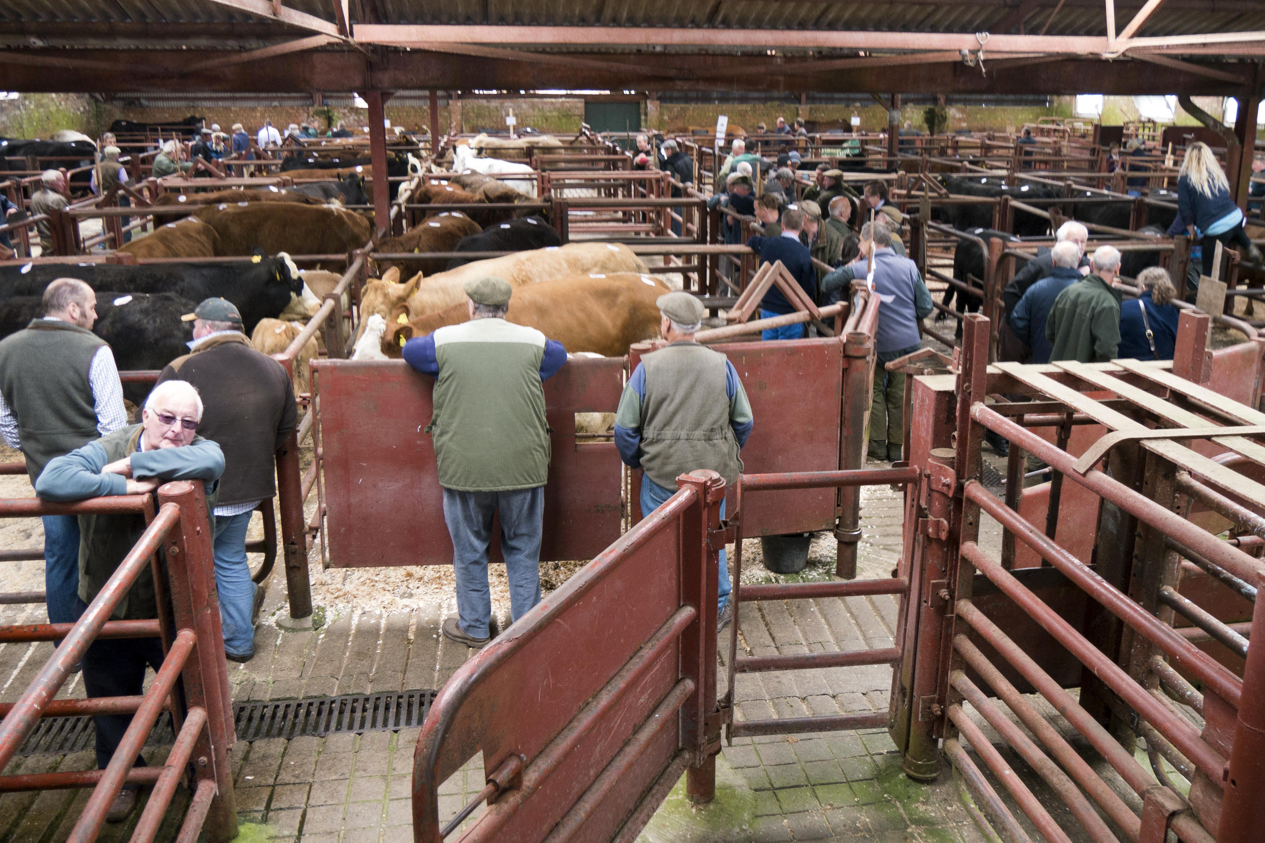 Malton livestock market 2016